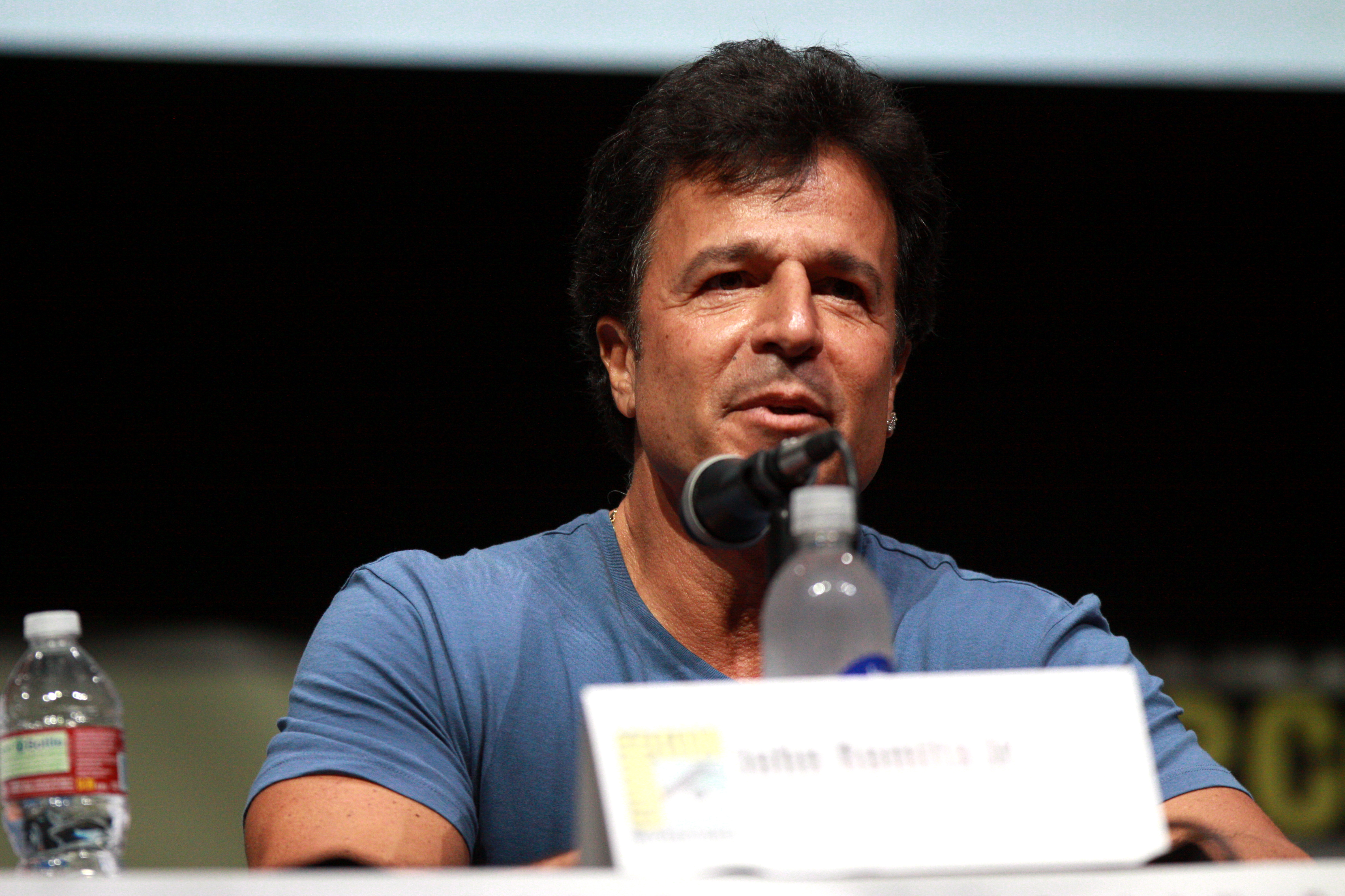 John Romita, Jr. speaking at the 2013 San Diego Comic Con International, for "Kick-Ass 2", at the San Diego Convention Center in San Diego, California.